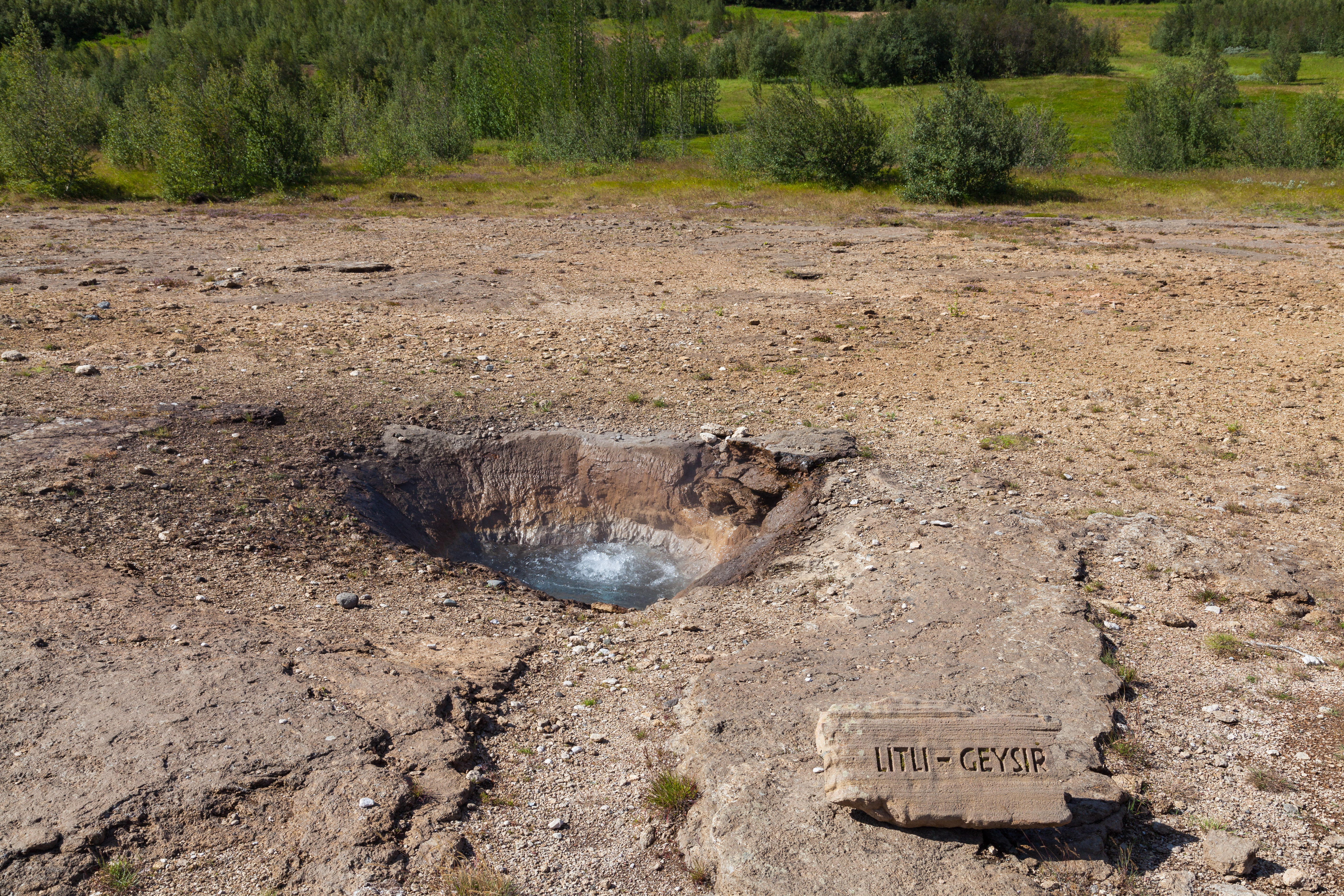 Litli Geysir, Geysir Geothermal Field, Suðurland, Iceland